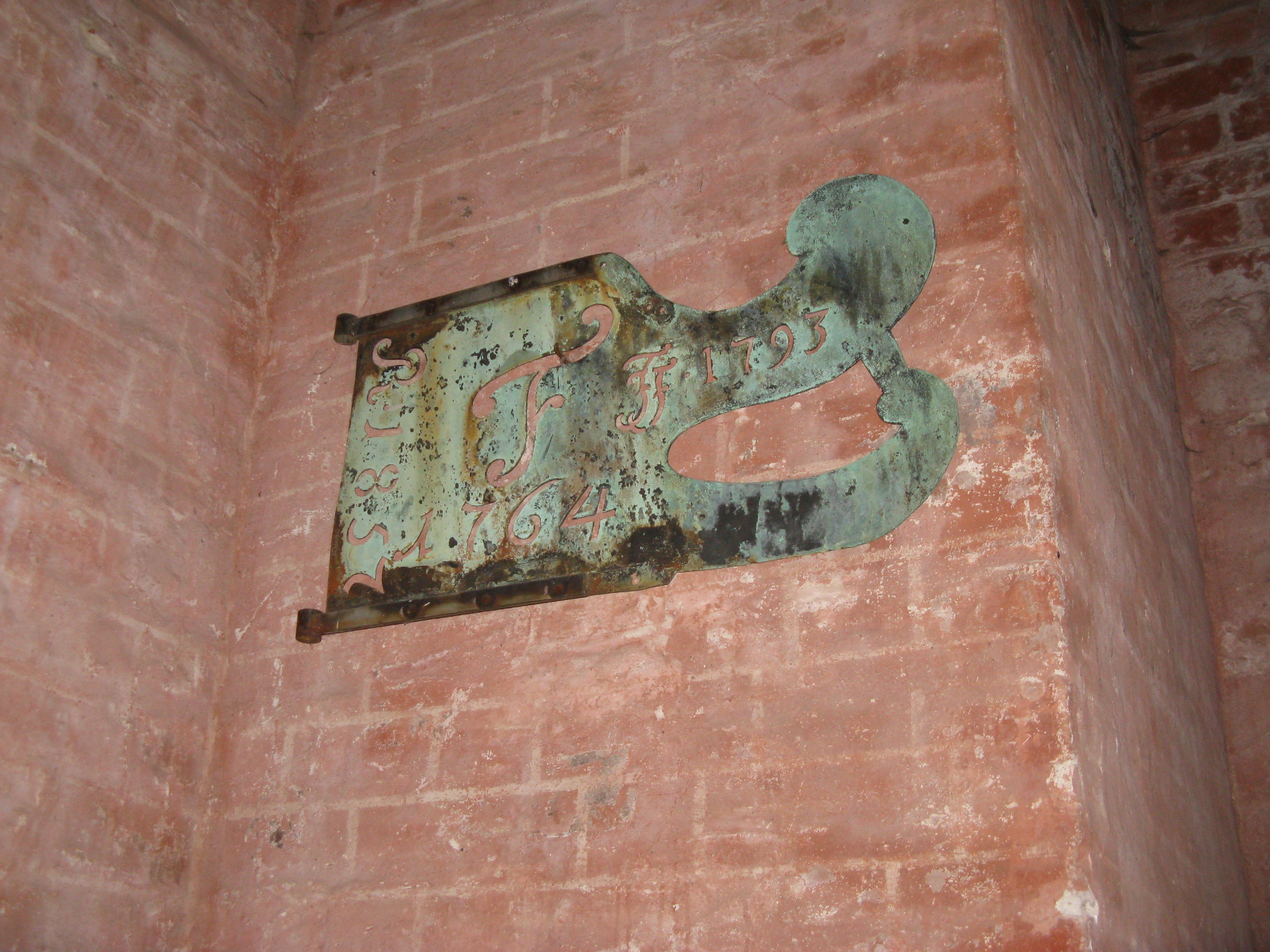 Church St. Marien in Parchim, Mecklenburg-Vorpommern, Germany - old weather vane